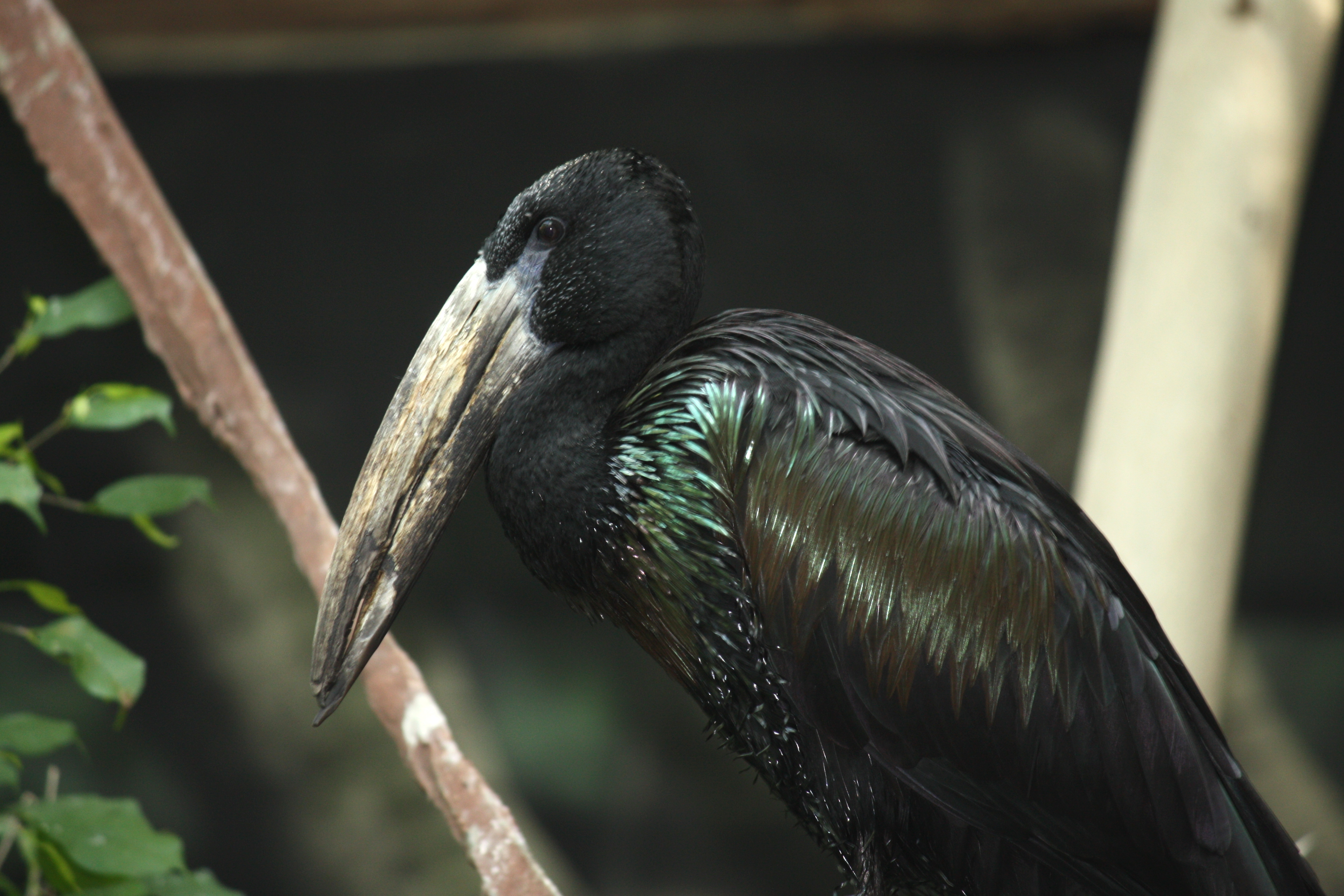 African Openbill Stork (Anastomus lamelligerus) at the Louisville Zoo